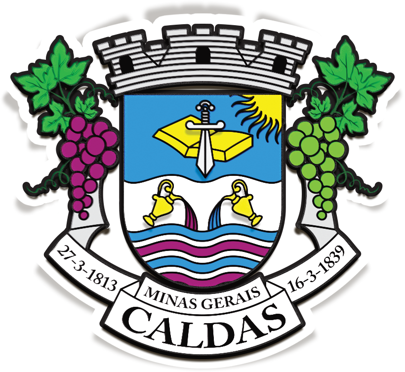 Coat of arms of the city of Caldas, Minas Gerais , Brazil.